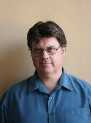 Alan Whiticker in 2008